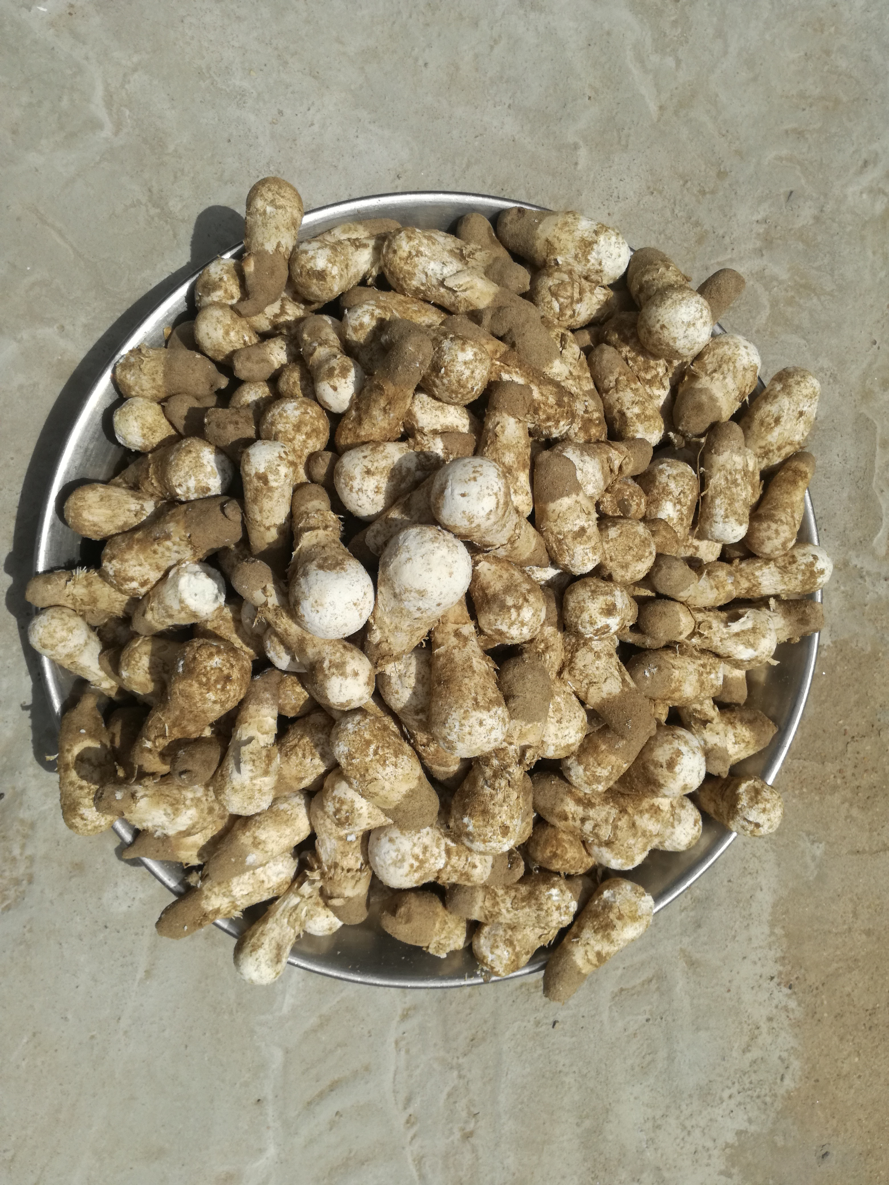 Mushrooms grow in abundance in Tharparkar district 2-3 after rains.